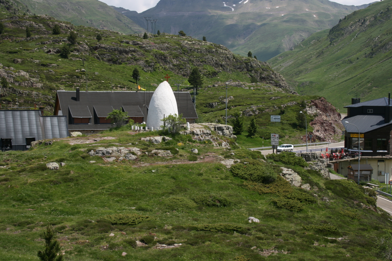 Col de Somport at the southern end of the valley of Aspe.